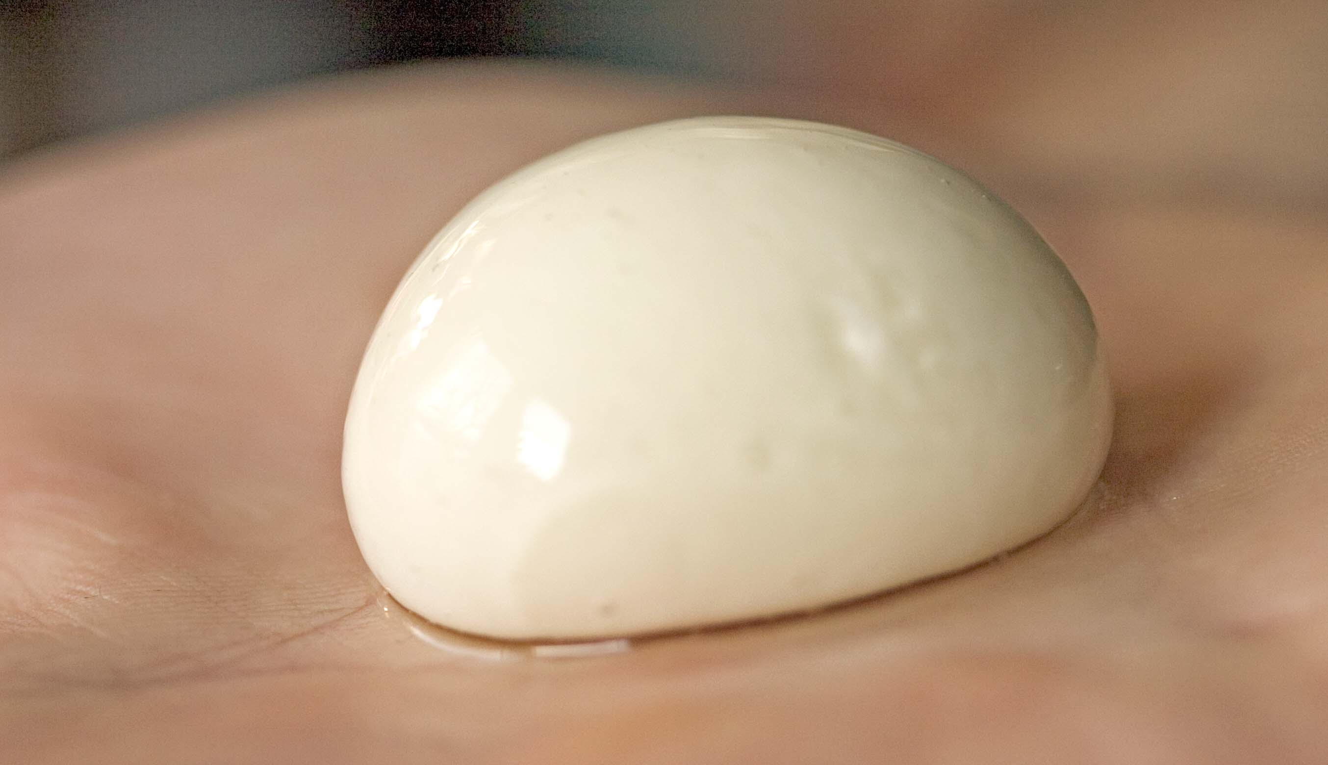 Yogurt Encapsulated with Gellan